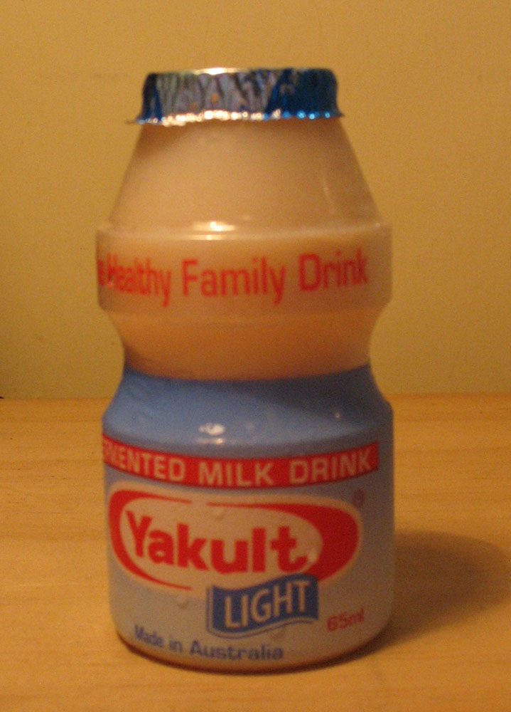 A bottle of Australian Yakult light 65ml